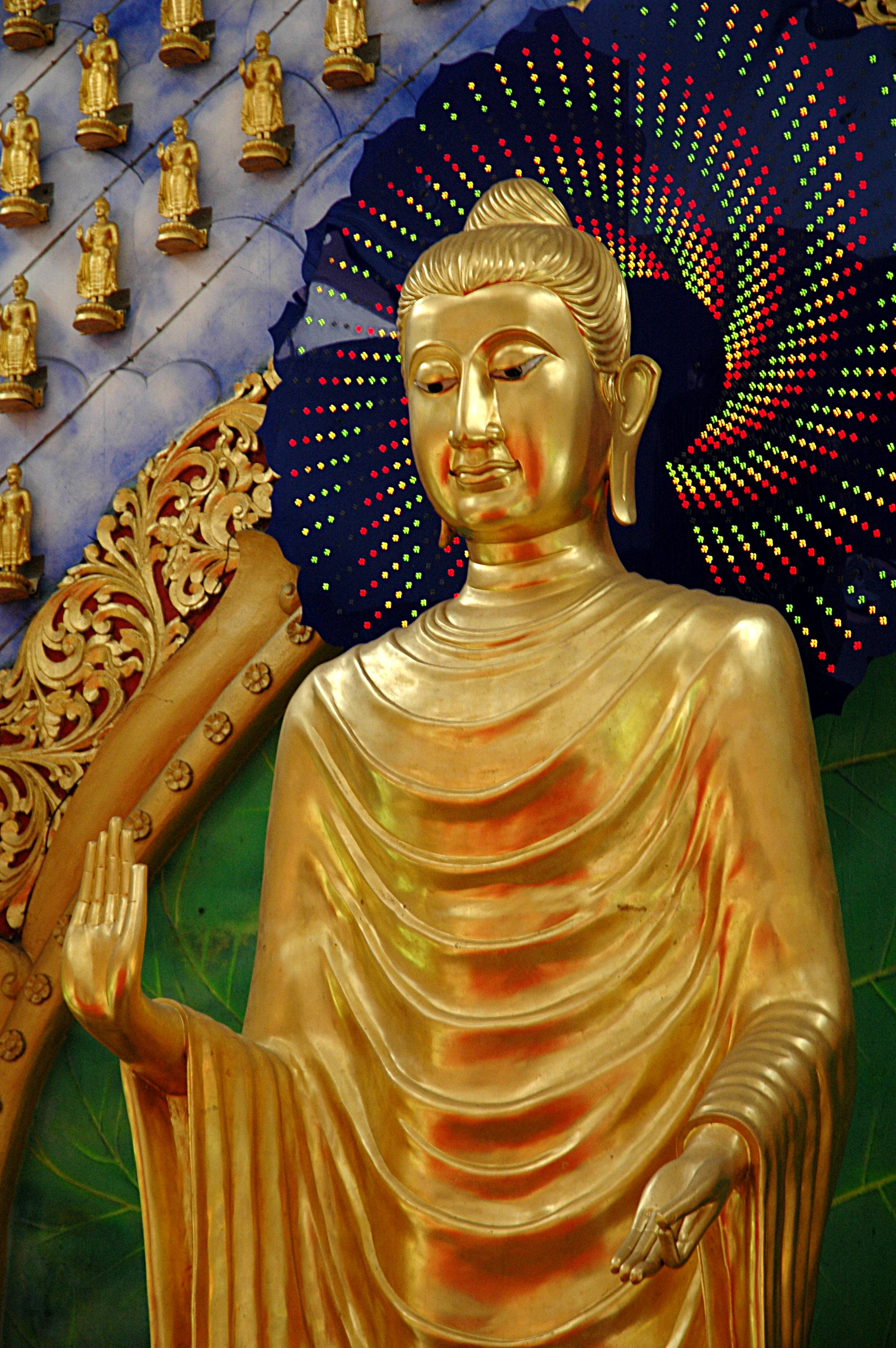 Standing Buddha, 3rd floor, Burmese Buddhist Temple.